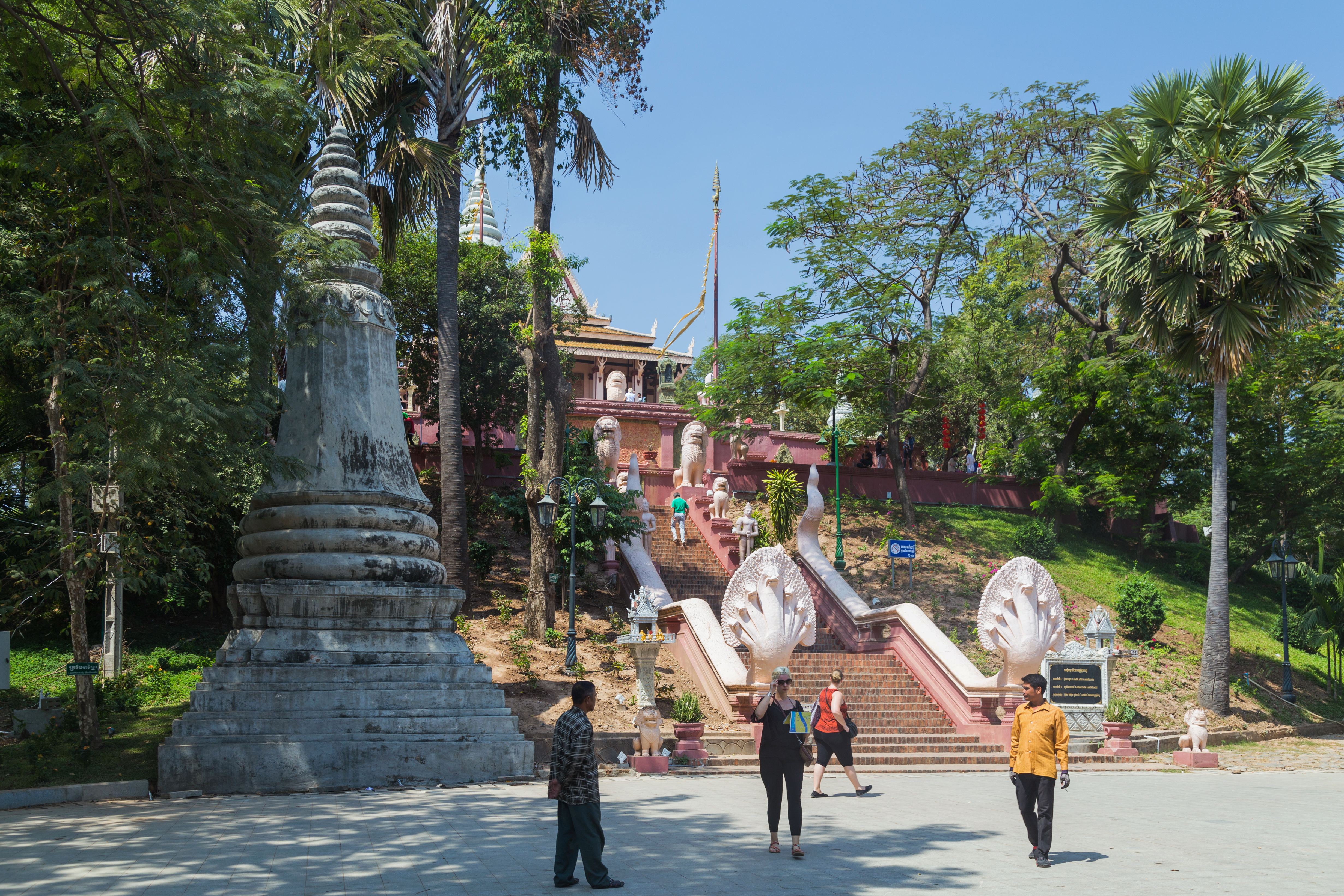 Wat Phnom. Phnom Penh, Cambodia.